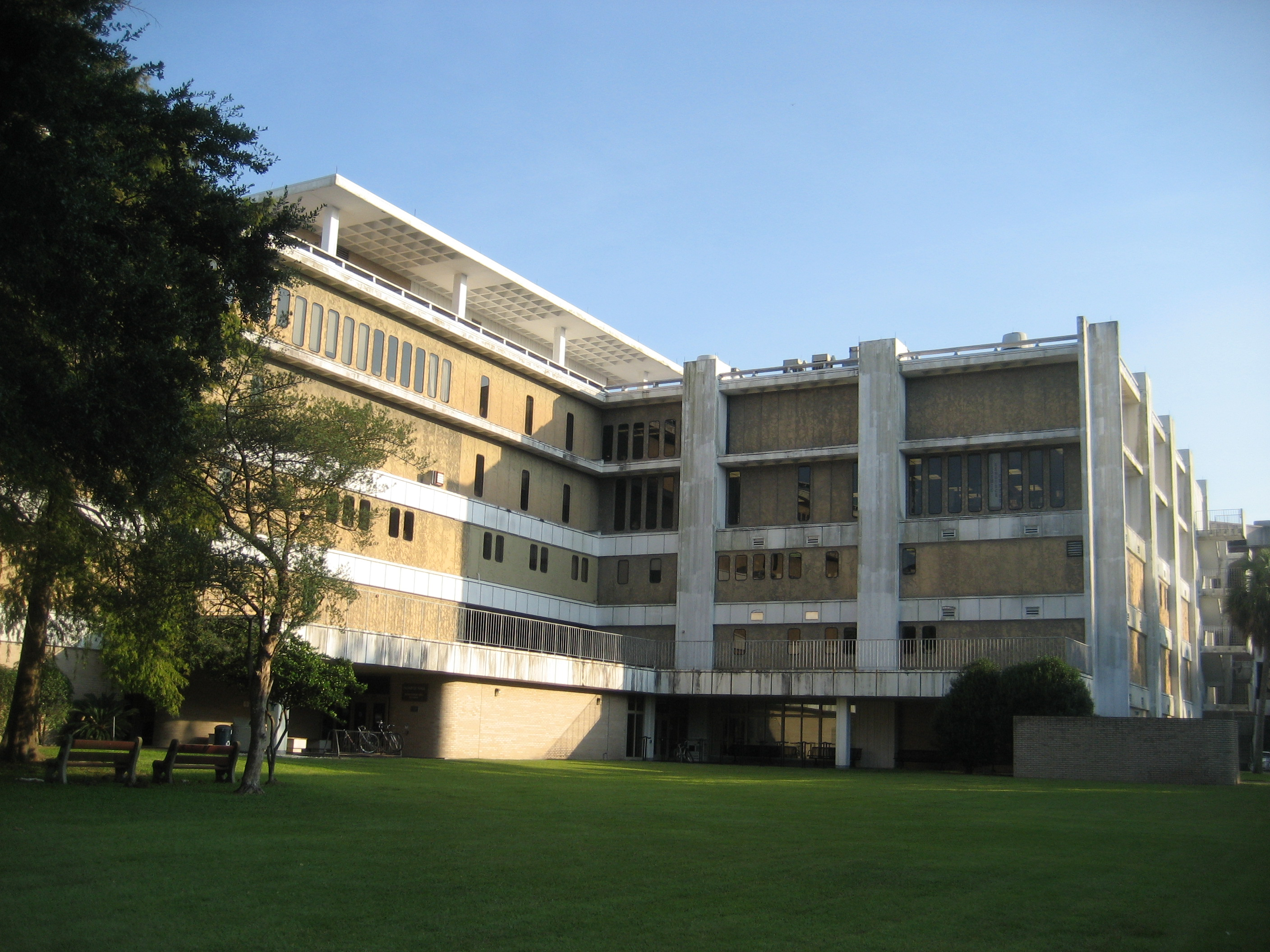 Loyola University New Orleans, main campus. Monroe Hall.